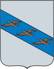 Kursk (Kursk oblast), coat of arms (1780)